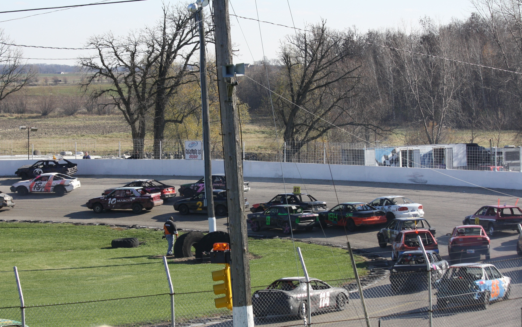 4 cylinder cars racing in an enduro race at the Columbus 151 Speedway.